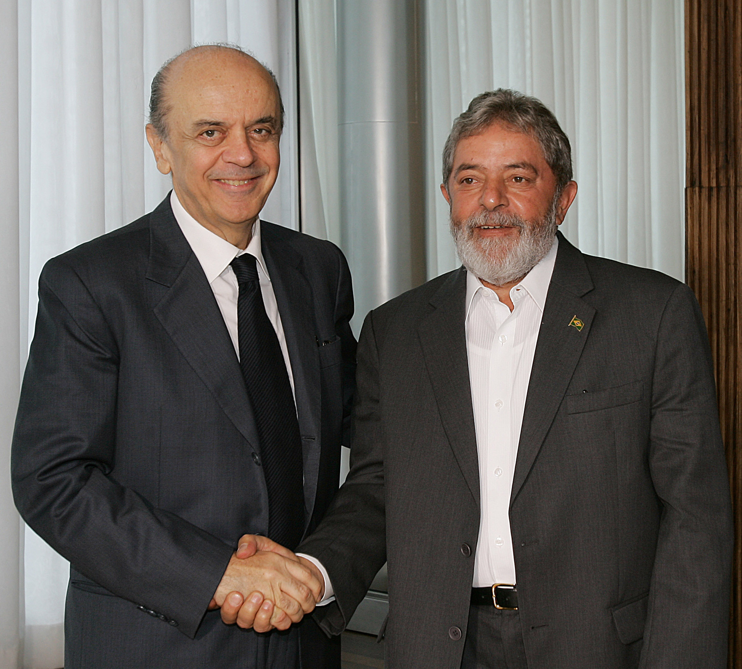 José Serra, governor of the Brazilian state of São Paulo talks with the president Luís Inácio Lula da Silva in Brasília.